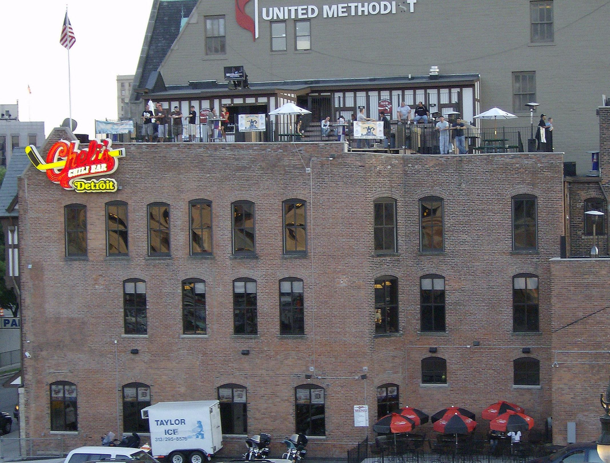 Hockey player Chris Chelios Rest/bar in Detroit